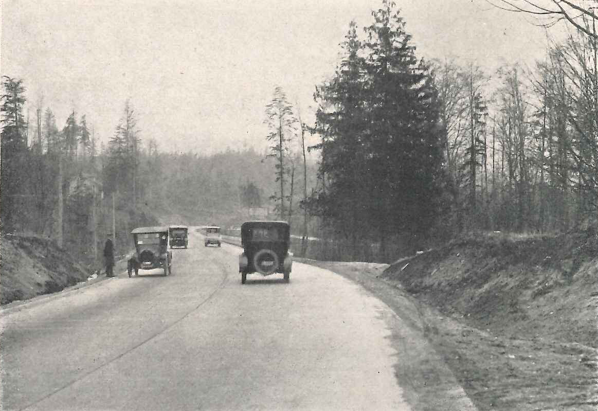 Victory Way (later Lake City Way NE) probably somewhere around the 8500 block. From a Morningside Heights real estate brochure, Seattle, Washington, U.S., 1923. The neighborhood would now be considered the northwest part of Wedgwood, a name that did not exist as a neighborhood name until about 2 decades later.